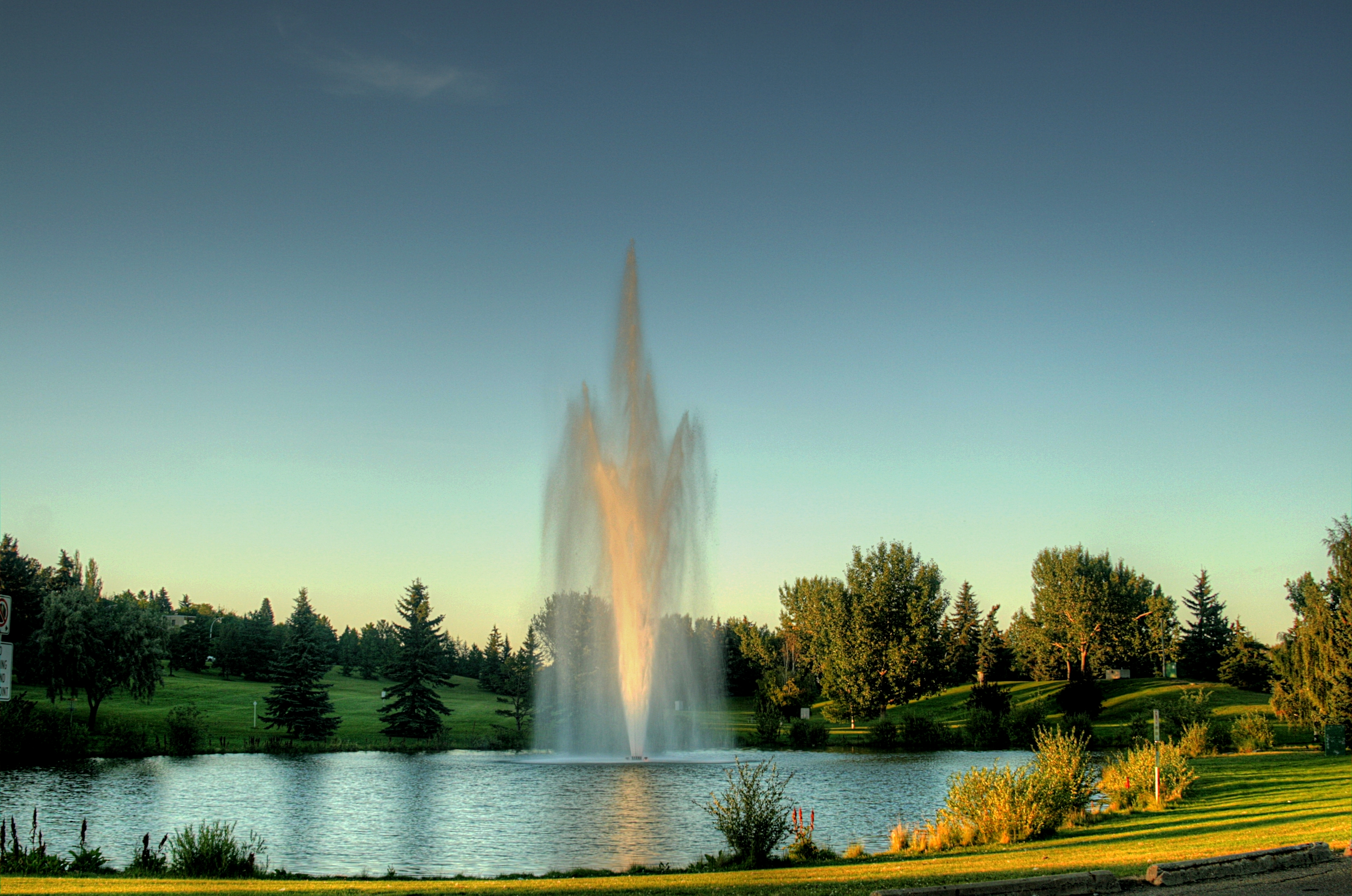 Decorative fountain in Rundle Park, Edmonton, Alberta, Canada.